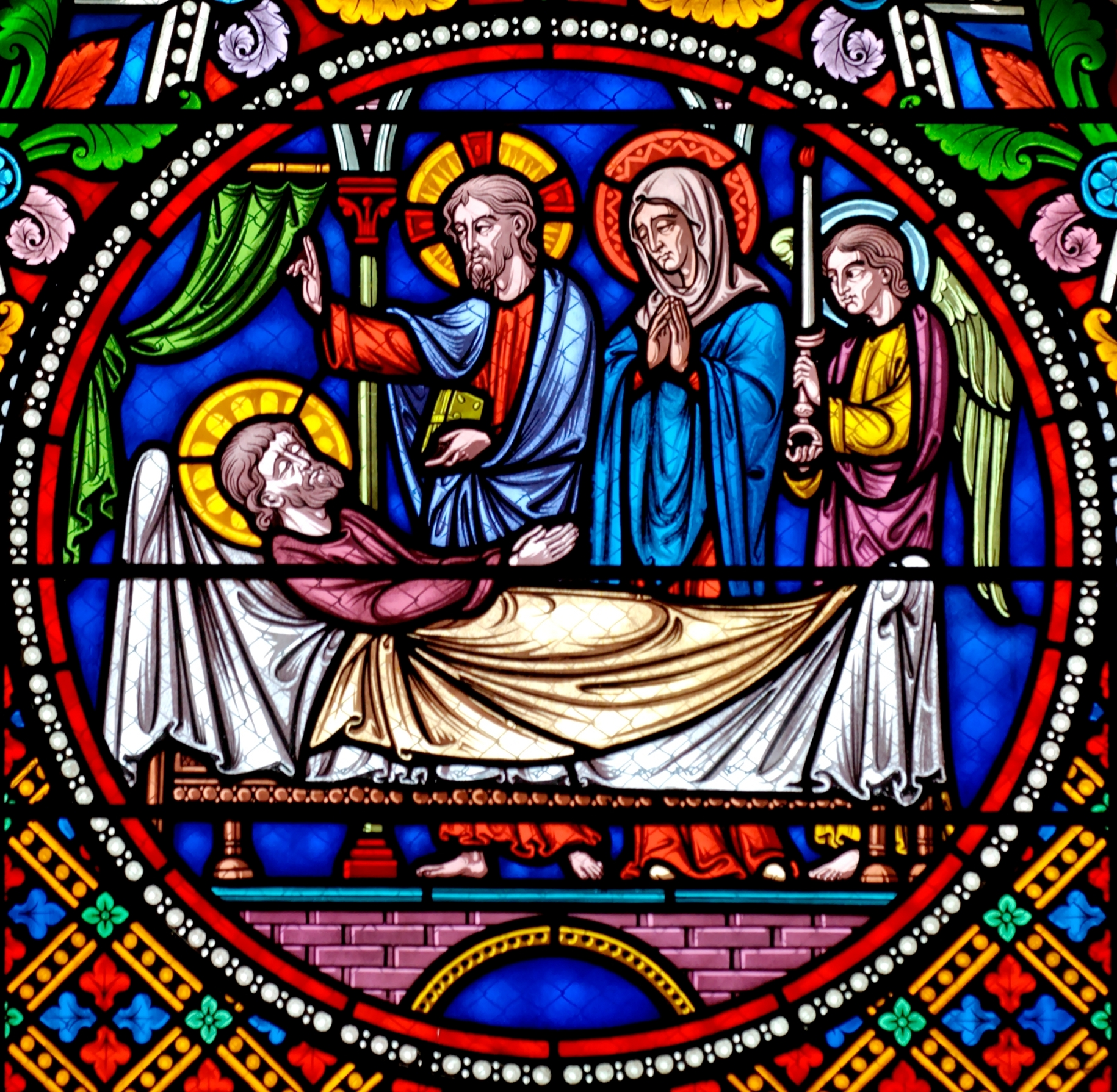 Scenes from the life of St. Joseph: the death of the saint. Top panel of a stained glass window from an apsidal chapel of the church Saint-Austremonius of Issoire, Auvergne, France.